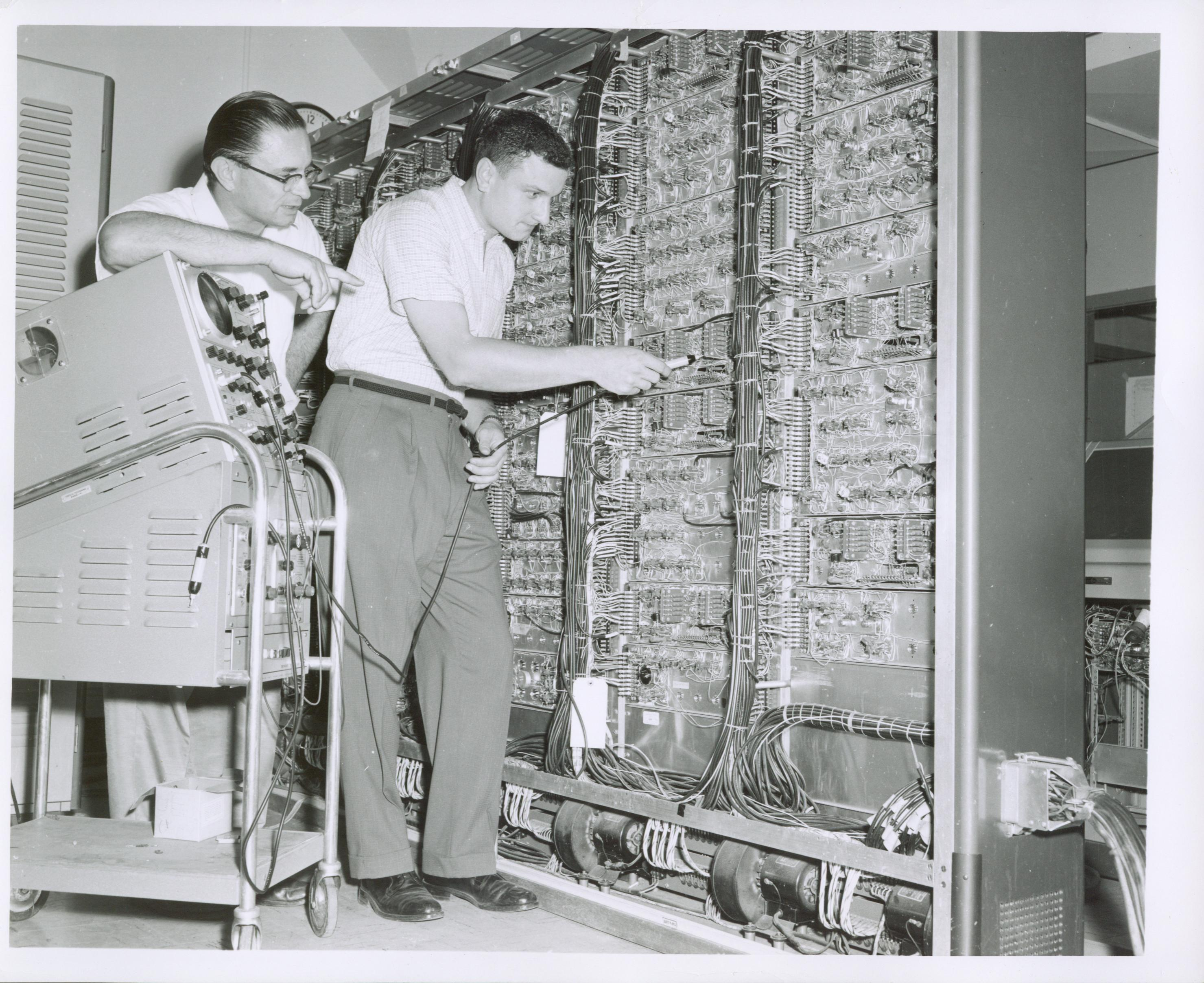 Testing electrical components in the 1950s as the Census Bureau was transitioning from mechanical tabulation using punch cards to computers using magnetic computer tapes.